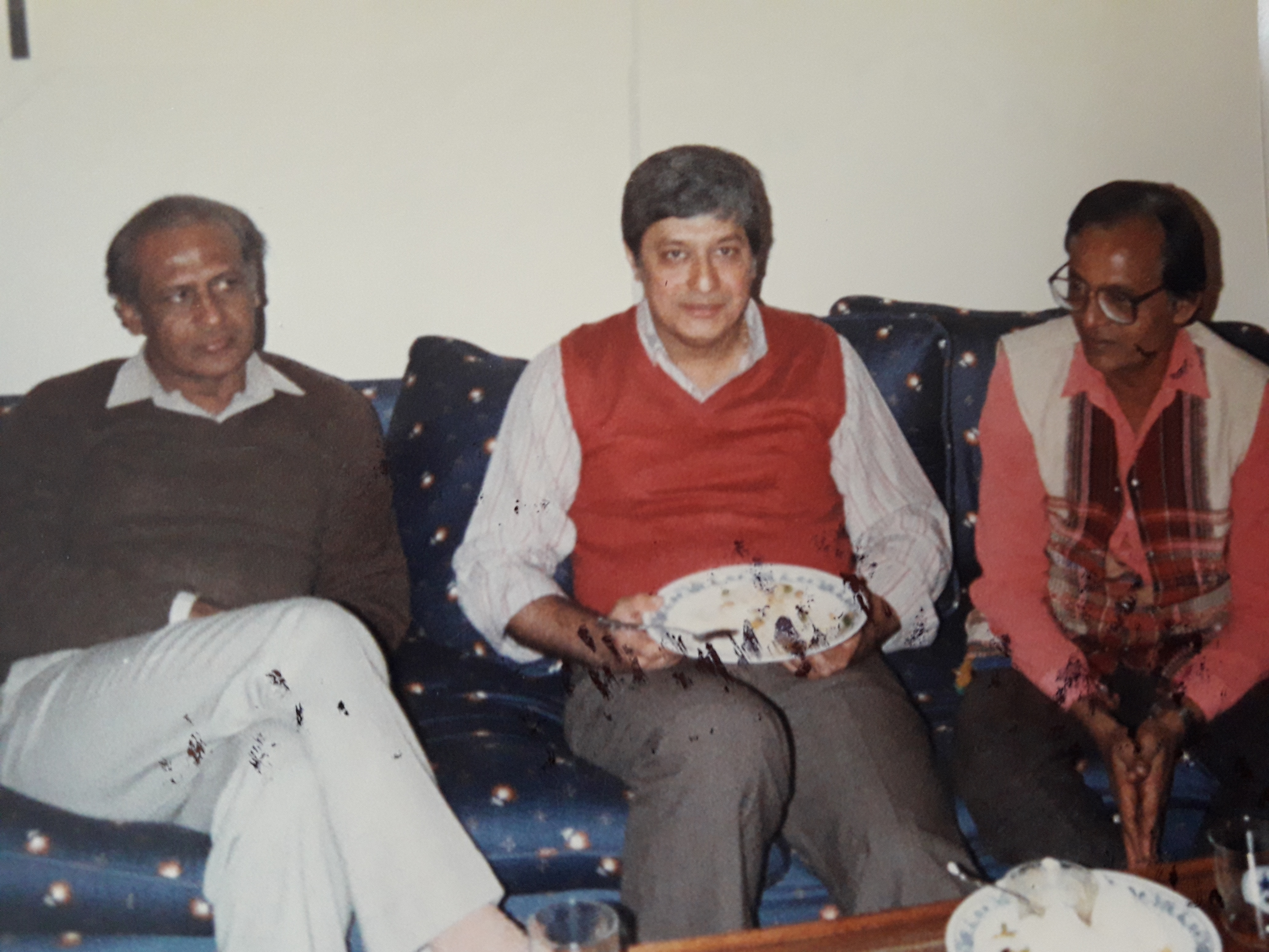 Gujarati writers Chinu Modi (right) and Manoj Khanderia (left) at U.S.A in 1997